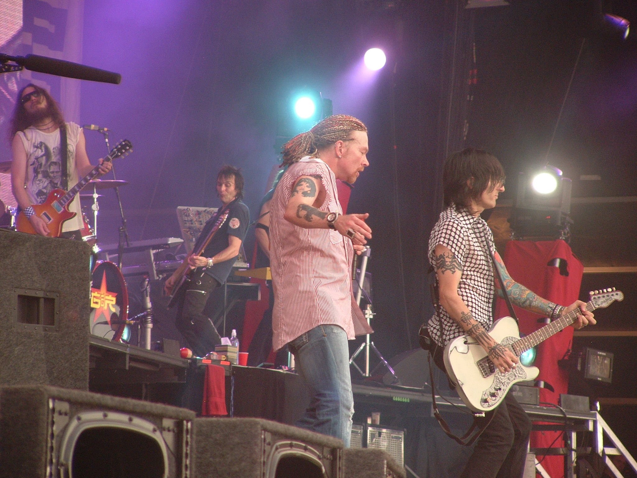 The New Lineup of GUNS N' ROSES (Ron "Bumblefoot" Thal, Robin Finck, Tommy Stinson, Axl Rose and Richard Fortus)